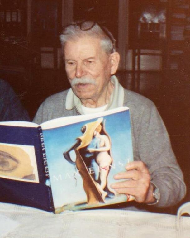 Portrait of Viktor Matejka, Viennese politician and art collector (1901 - 1993). Picture taken in 1991